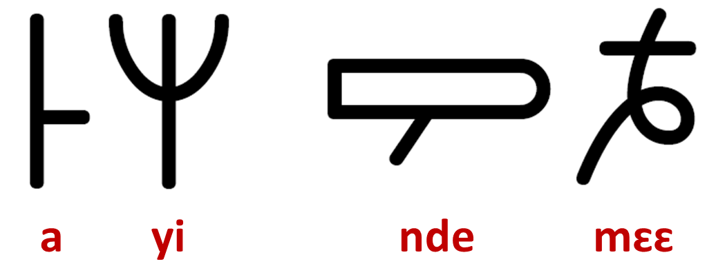 African Mende language in Kikakui script: 𞠗𞢱 𞡓𞠣 (Mende yia)